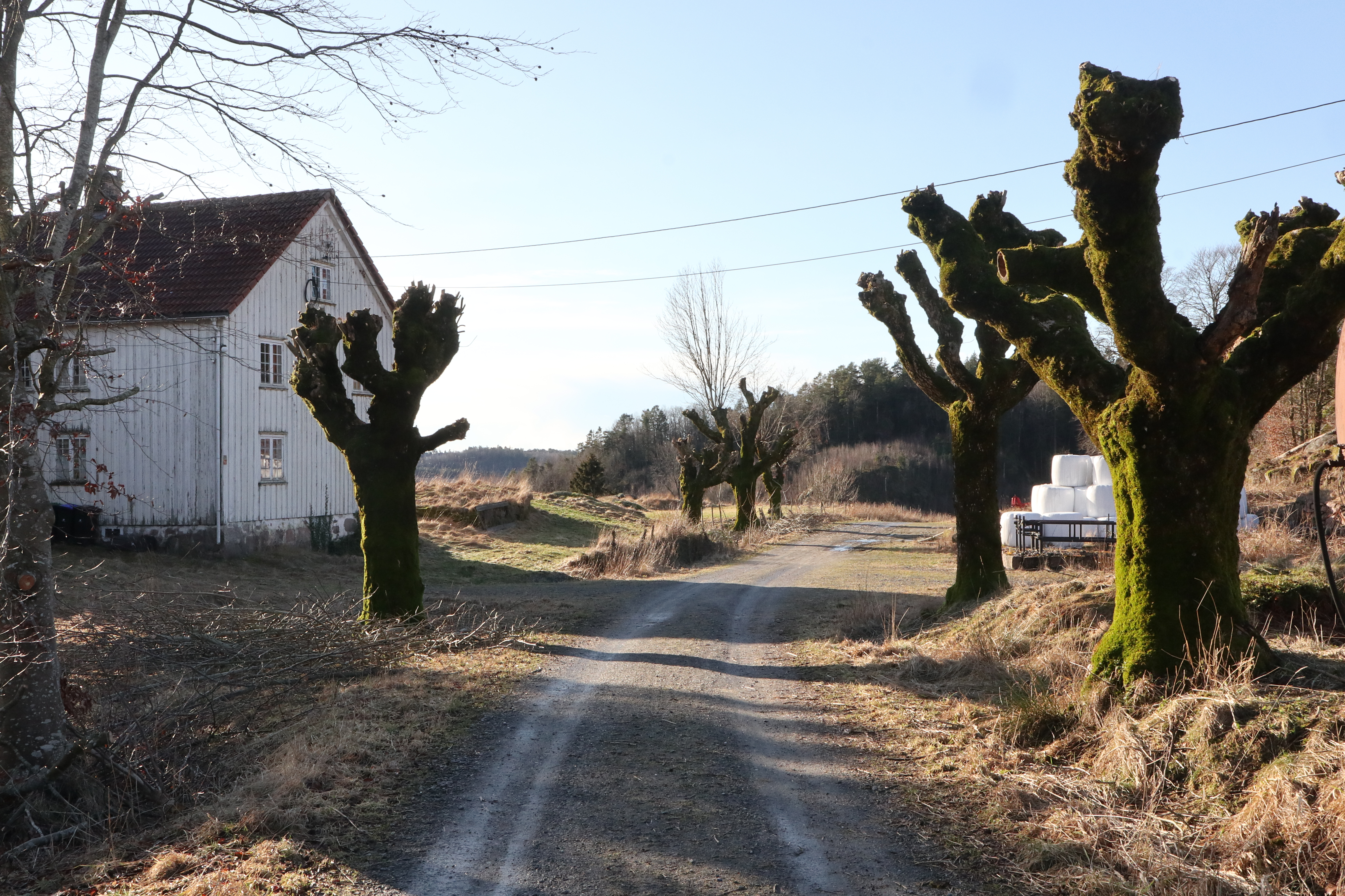 Vestlandske hovedvei by Bjørnetrø in Grimstad